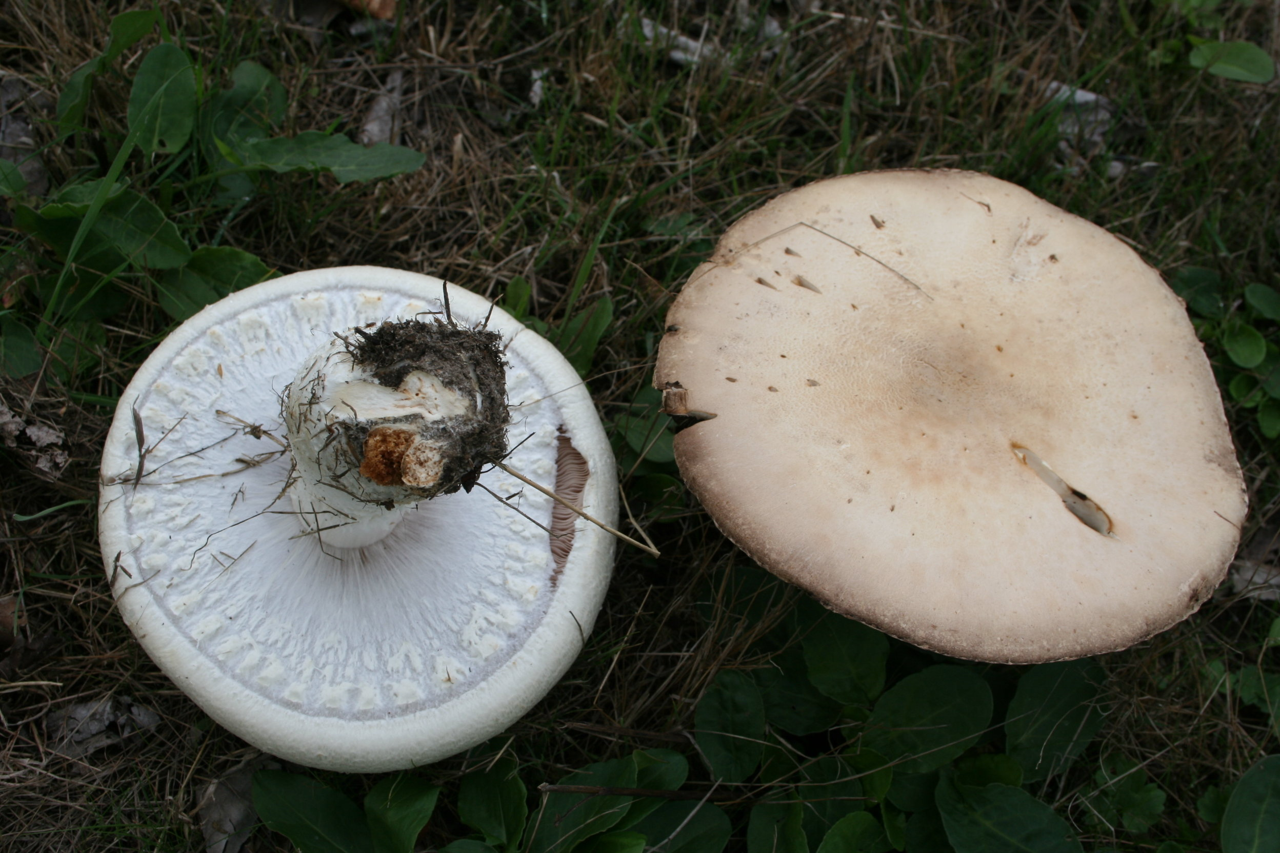 Agaricus urinascens var. (= A. macrosporus) on a grassy area near Le Mans, France.